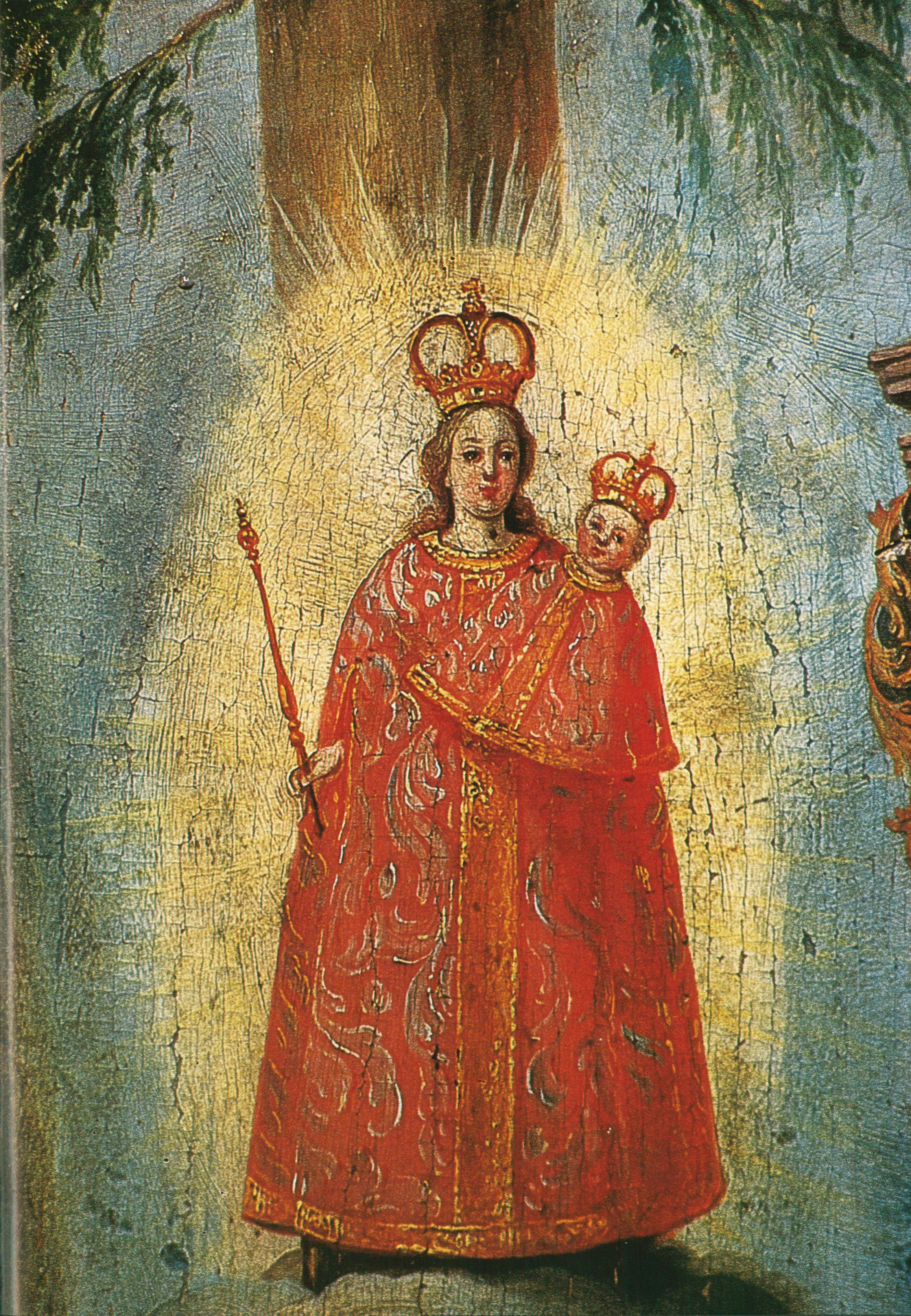 Maria in der Tanne Triberg, miraculous image in a painting of 1707